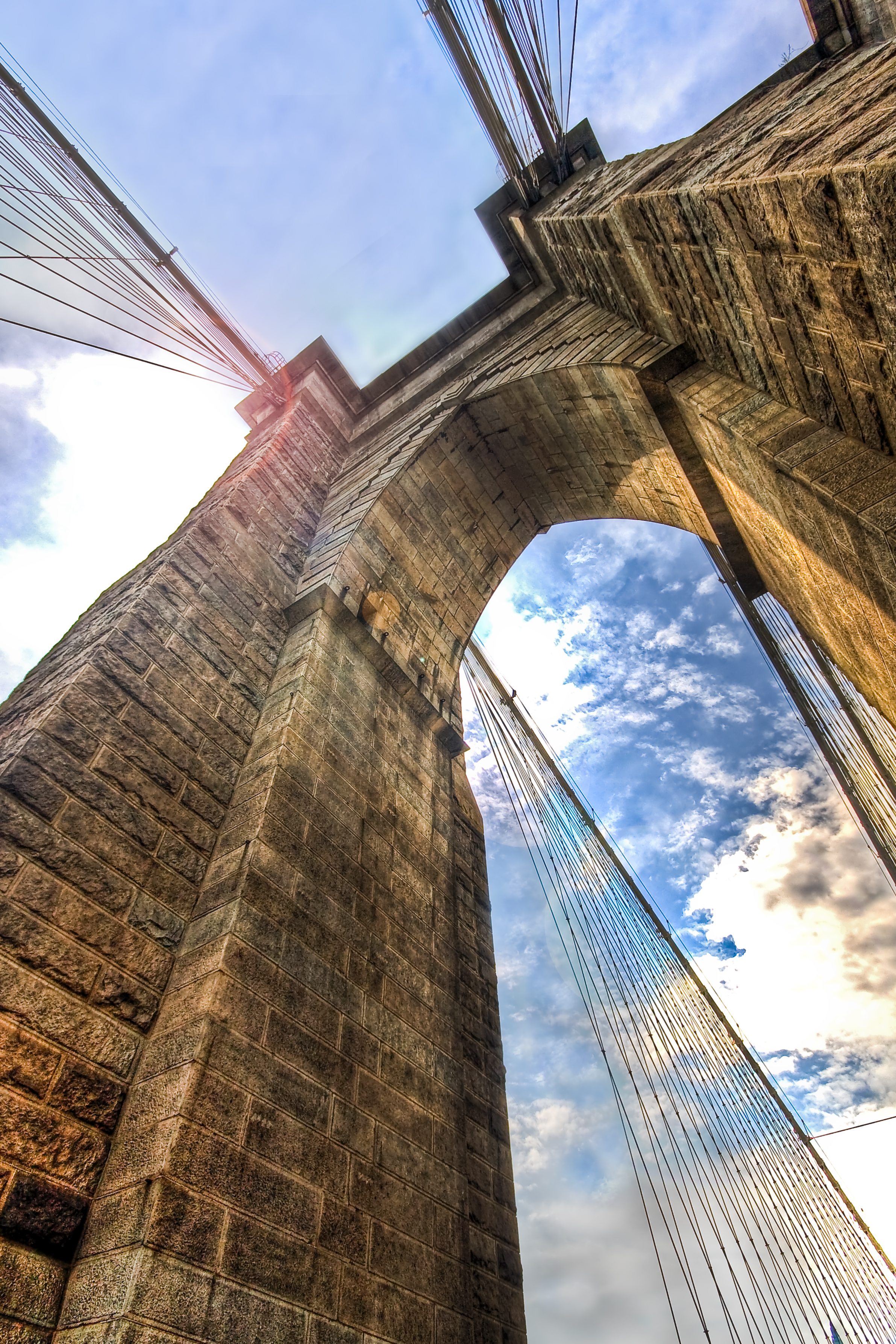 Looking up into one of those "towers" (I don't really know what to call them) of the Brooklyn Bridge in New York City